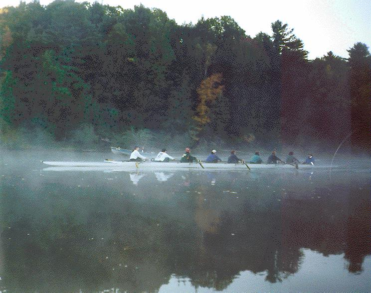 University of Vermont team practices in an 8 oar shell on the Lamoille River in Vermont. Photo by Gerry Ashton about 1998. Note that the bow is 'bow rigged'.